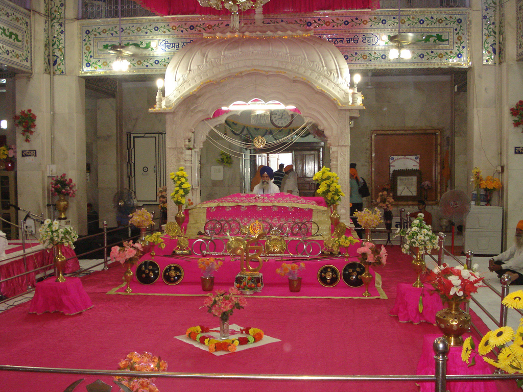 photo of gurudwara ponta sahib